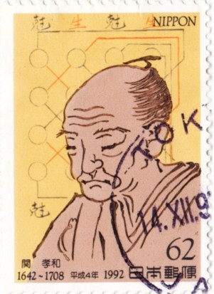 Japanese mathematician 1642-1708